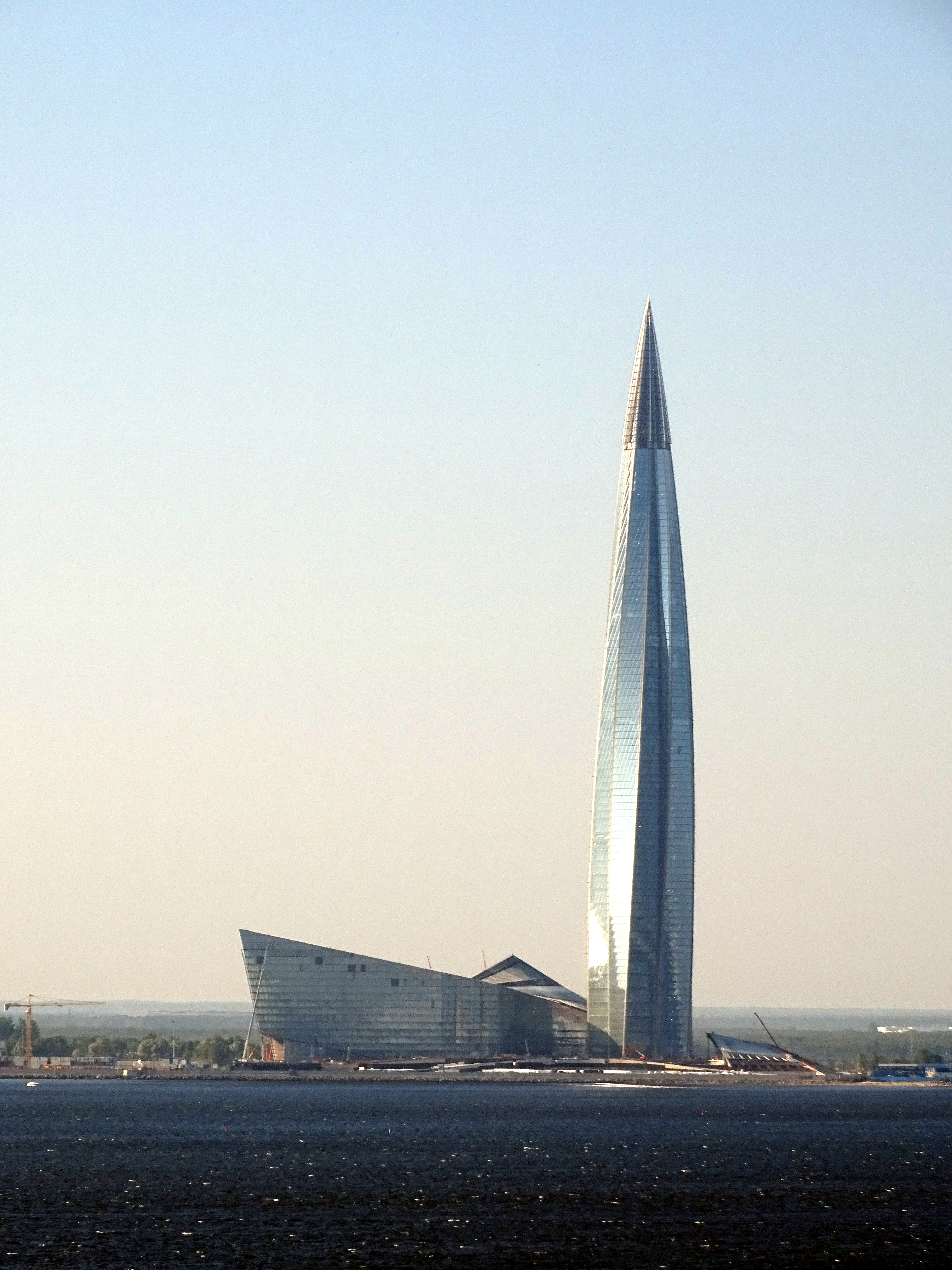 The Lakhta Center, an 87-story skyscraper in Saint Petersburg, Russia.